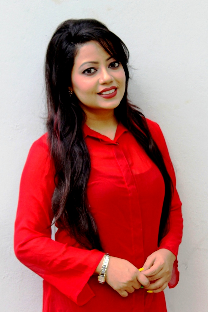 Singer